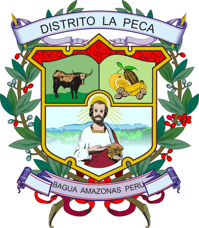 Escudo de La Peca